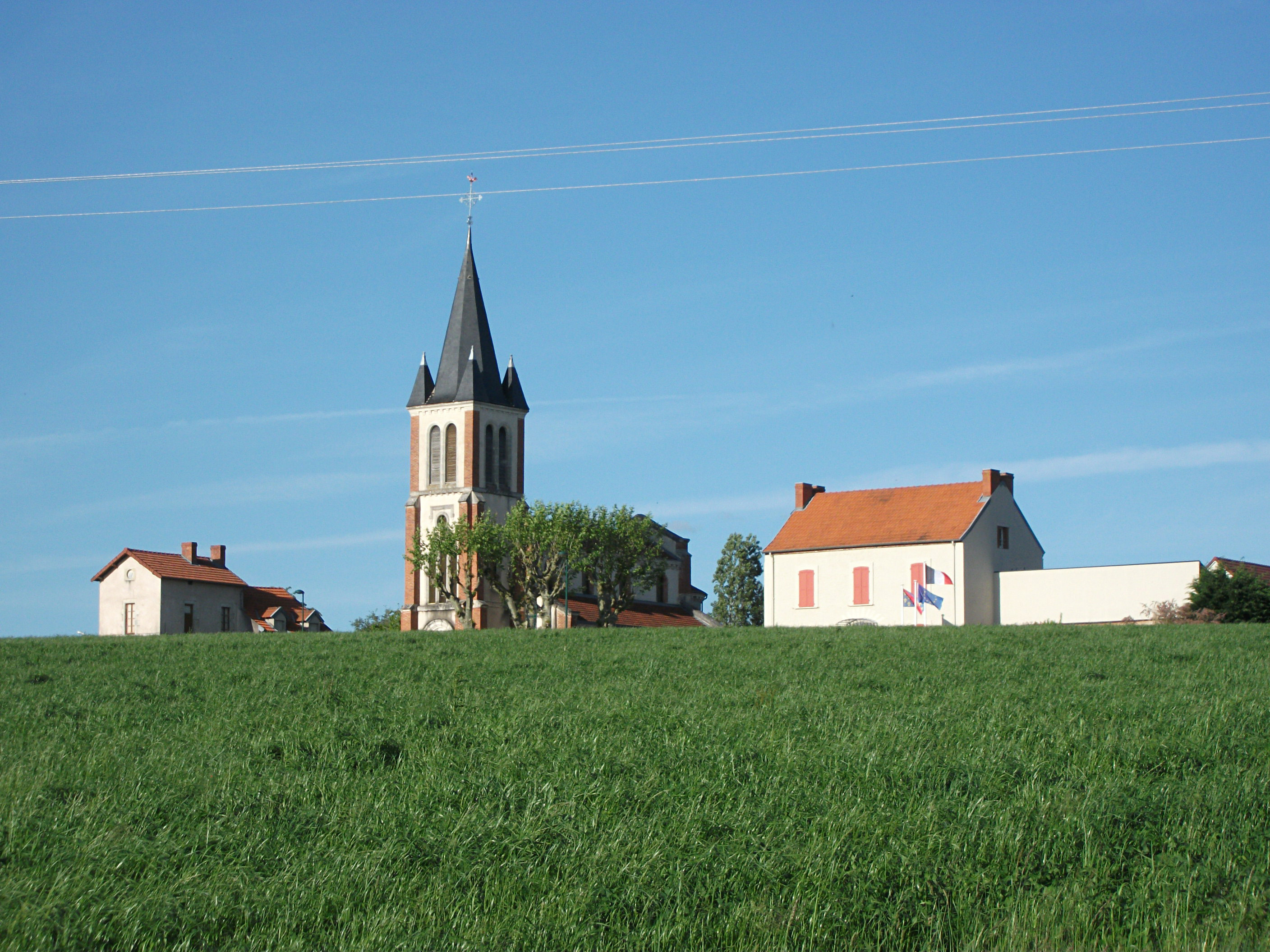 Church and town hall of Serbannes, Allier, Auvergne, France, from Old Church way (Chemin de l'Ancienne Église).